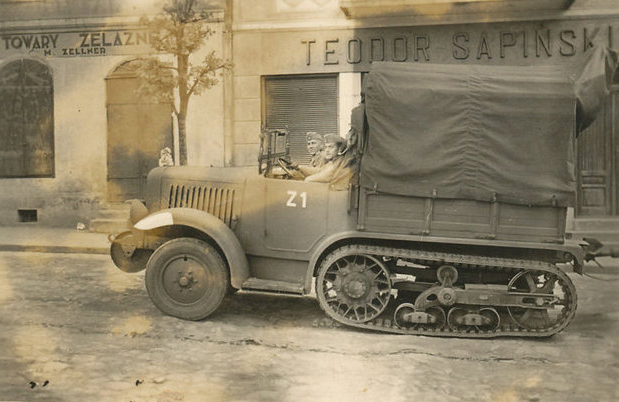 German vehicle in front of Teodor Sapiński's shop at the 10 Rynek Górny (Market Square) in Wieliczka during World War II